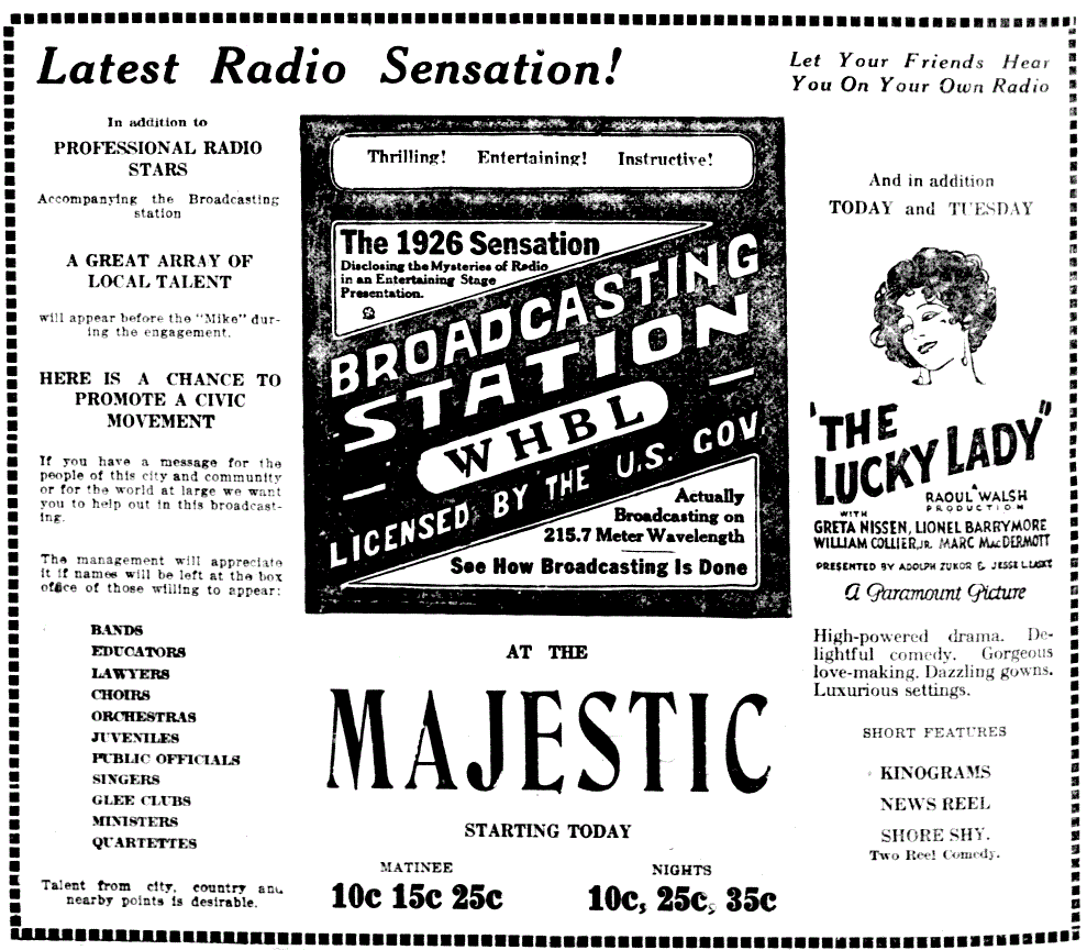 Promotional advertisement for program presented at the Majestic Theatre in La Crosse, Wisconsin which would also be broadcast over portable radio station WHBL.